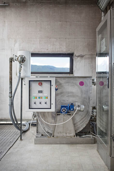 Single rotating cell biofilm reactor (RCBR) module